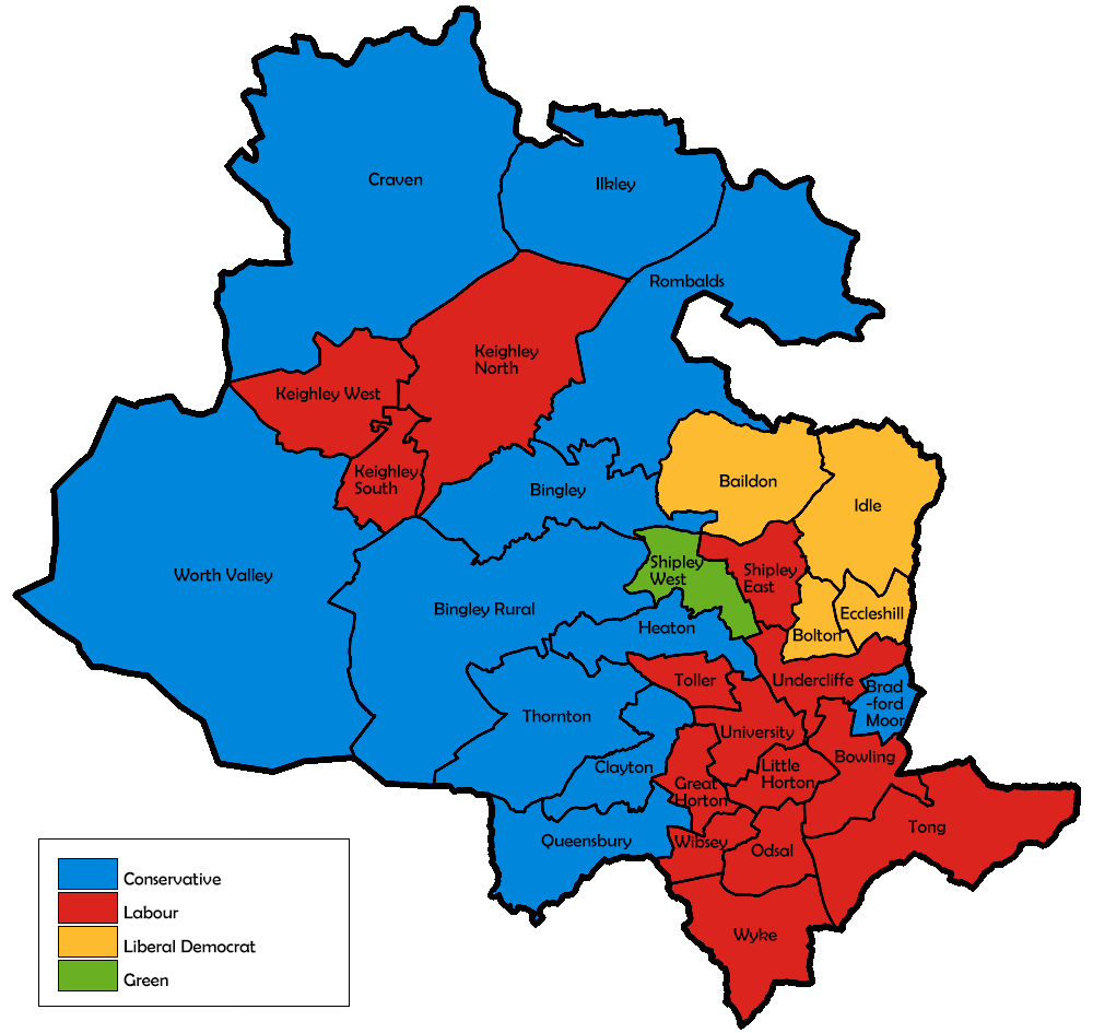 Ward map of Bradford Council with political colouring for the 2002 local election.